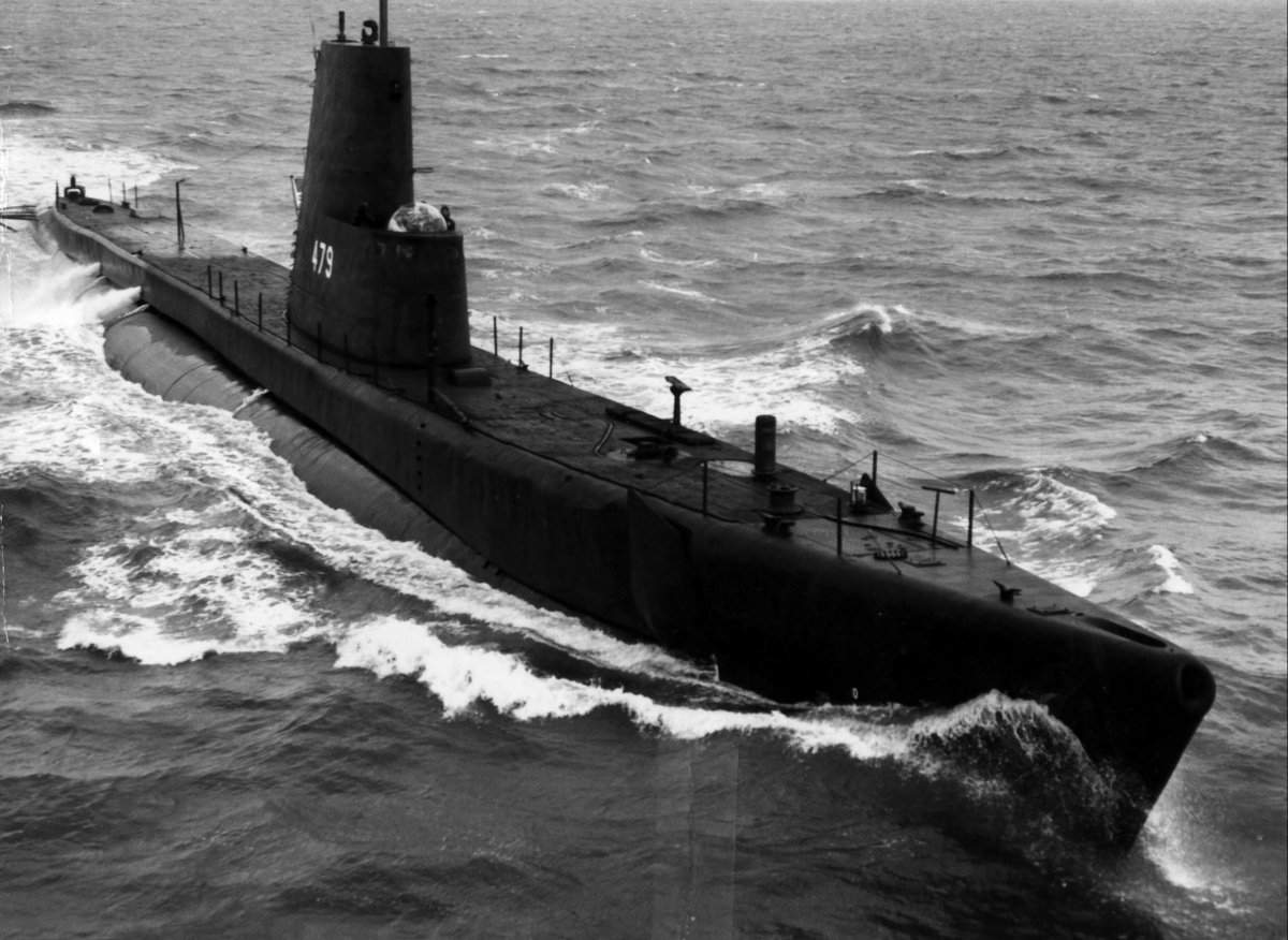 Diablo (AGSS-479), 1964 in Long Island Sound after conversion to Fleet Snorkel at Philadelphia Naval Shipyard.